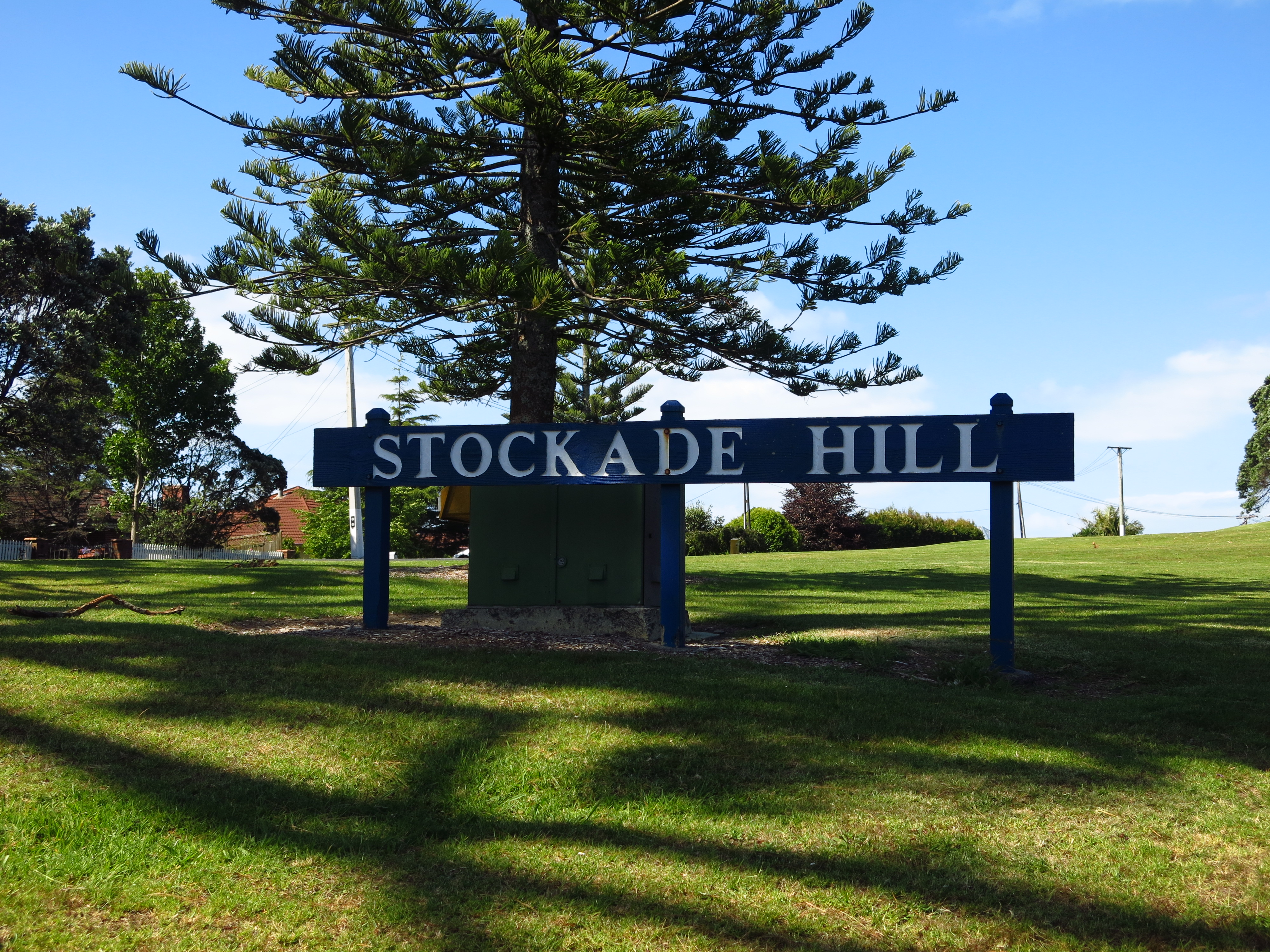 Entry sign at Stockade Hill in Howick, Auckland New Zealand